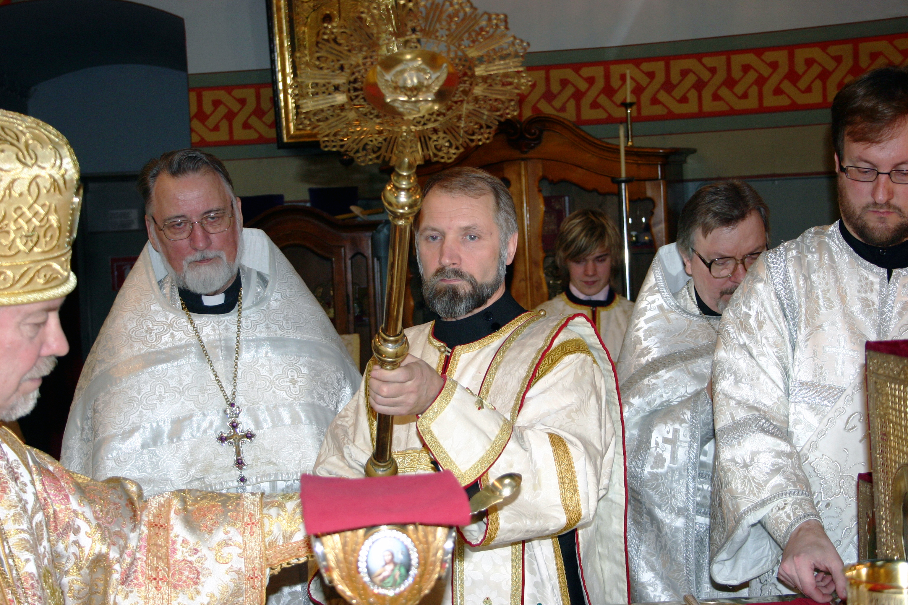 Orthodox deacon holding ripidion (liturgical fan) at his ordination.